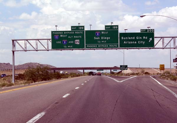 Interstate 10 westbound approaching Interstate 8's eastern terminus at Casa Grande, Arizona.